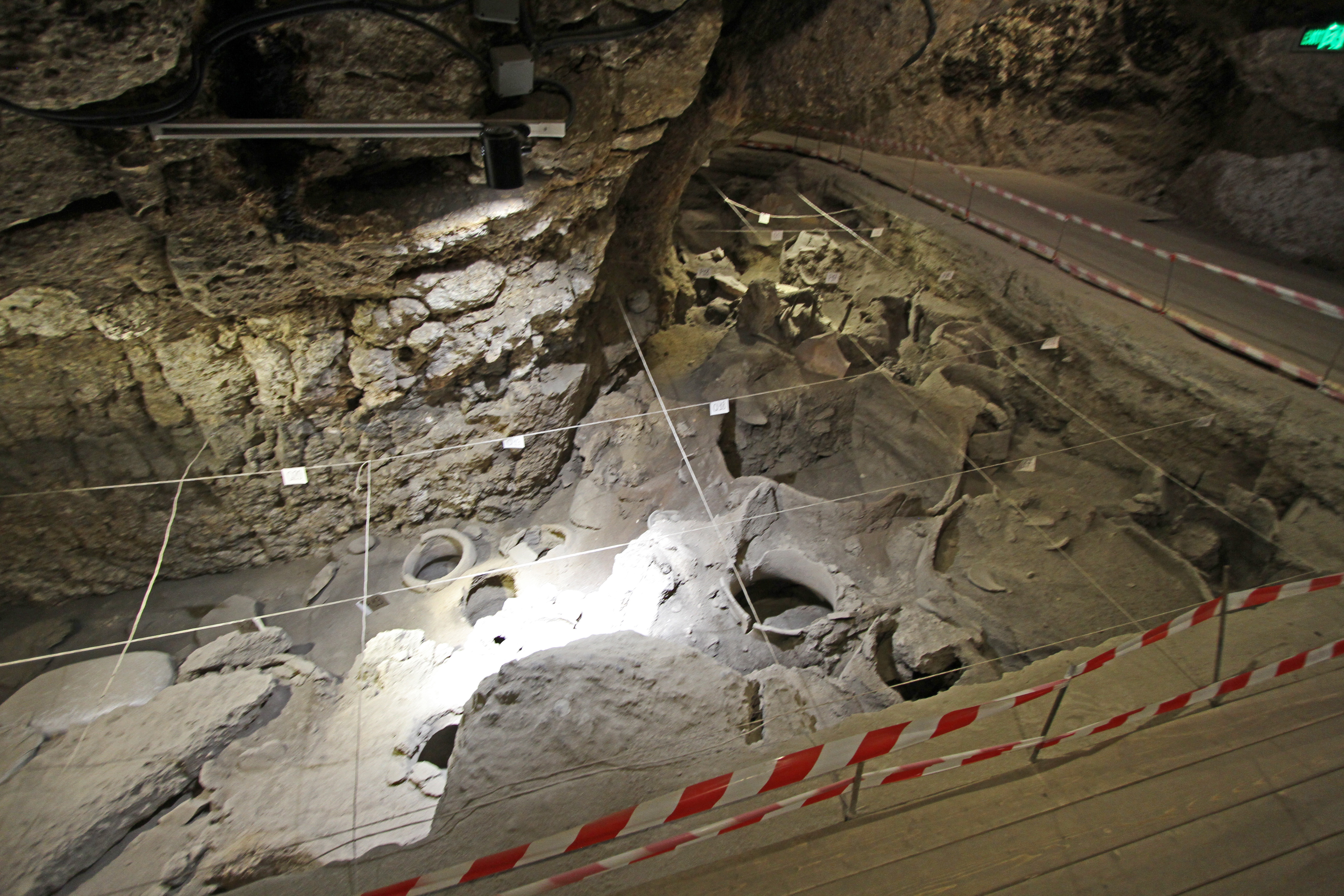 Cave Areni-1 in Armenia